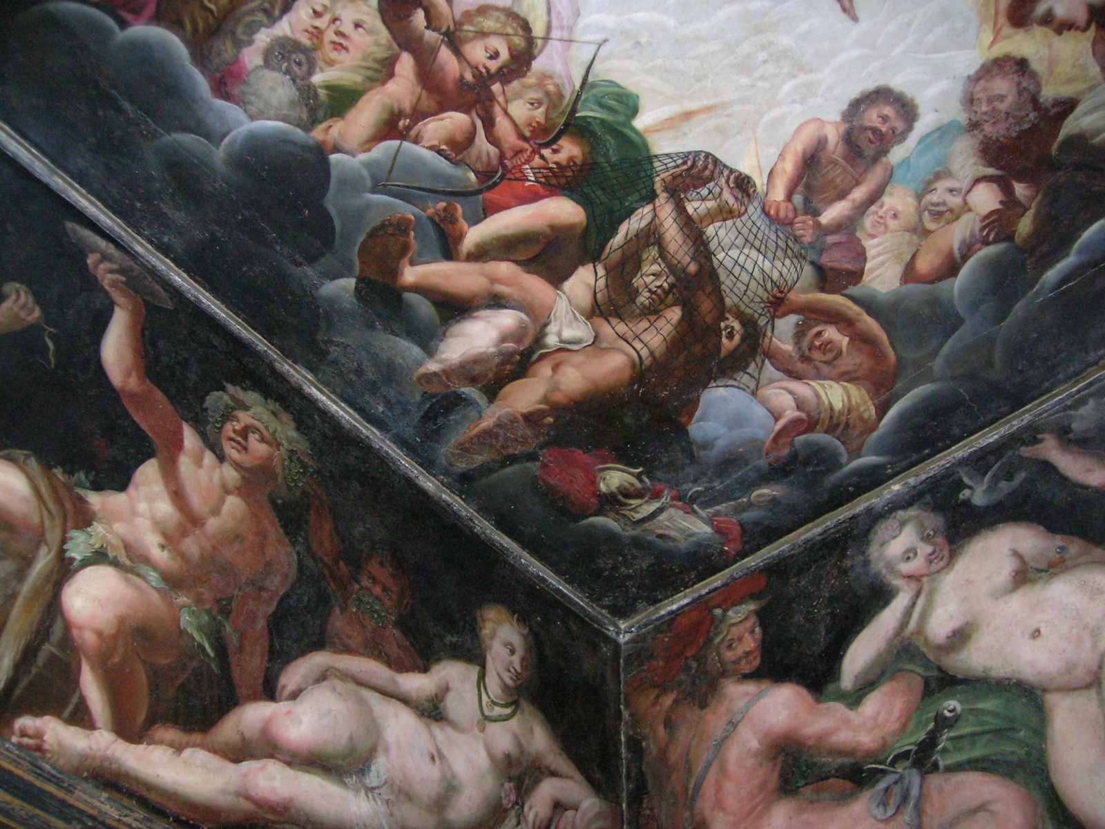 Painted ceiling in the "Pagan Room", Bolsover Castle